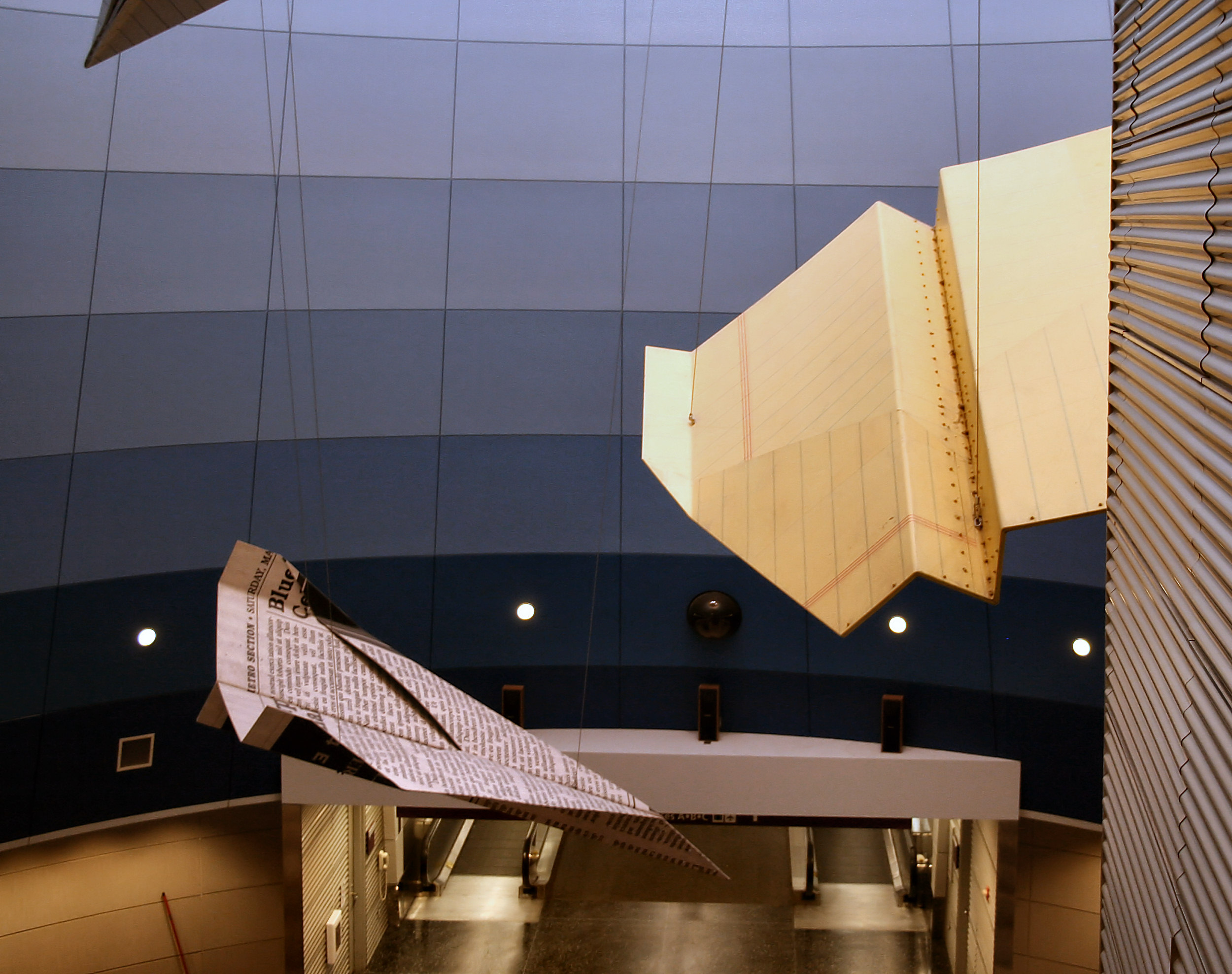 Some of the several giant "paper" airplane sculptures in the Continental terminal of Hopkins International Airport in Cleveland. The airplanes appear to be folded out of yellow legal paper, newspaper, computer paper, notebook paper, and similar materials but are actually made of aluminum covered with photographic laminates and measure as much as 16 feet long. The installation is called Home, School, and Office (1999). The artist is Andy Yoder[1] Photo shot by Derek Jensen (Tysto), 2005-September-04